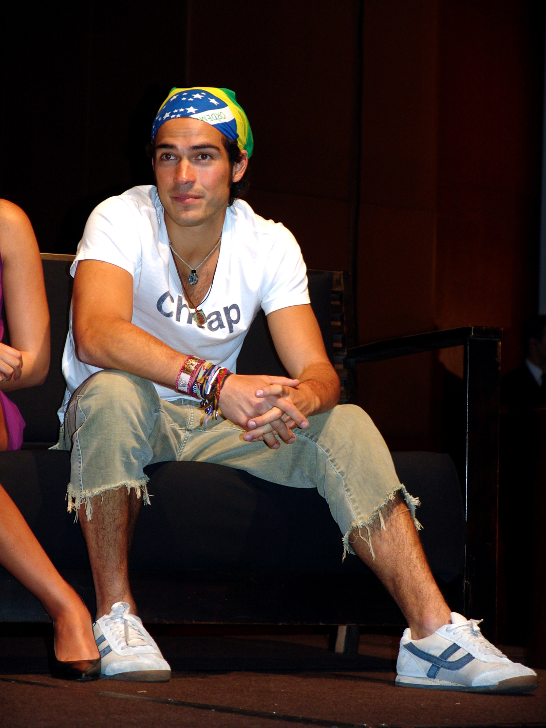 Mexican actor Alfonso Herrera.